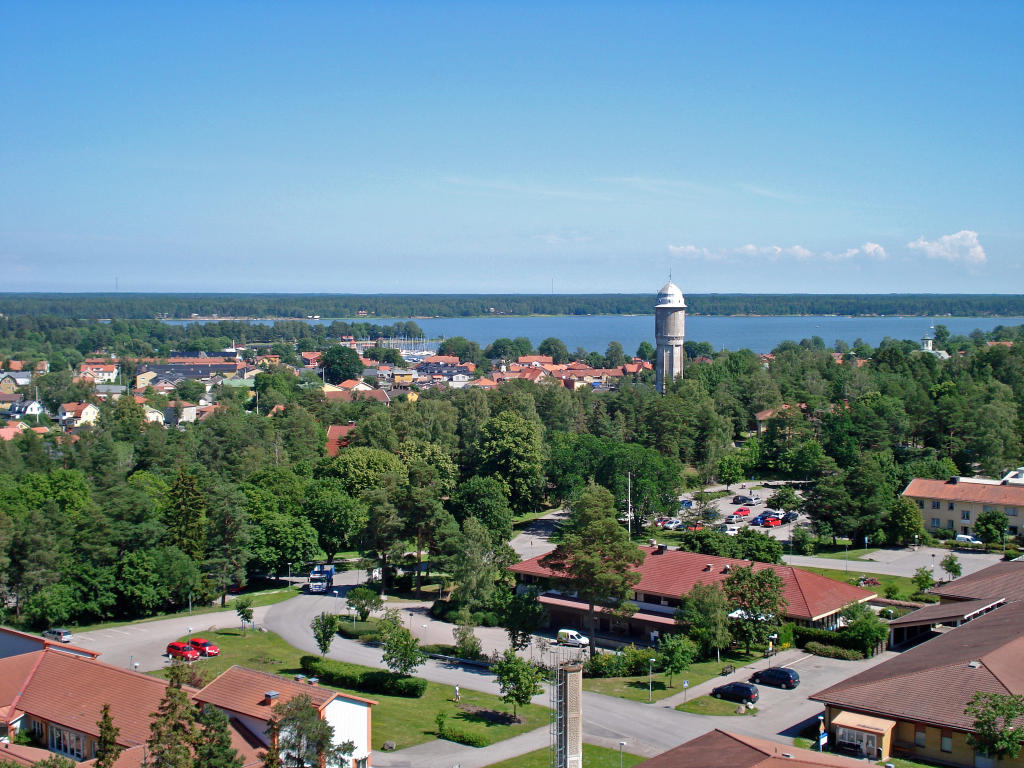 Photo of central Östhammar, Sweden, shot from the new water tower.